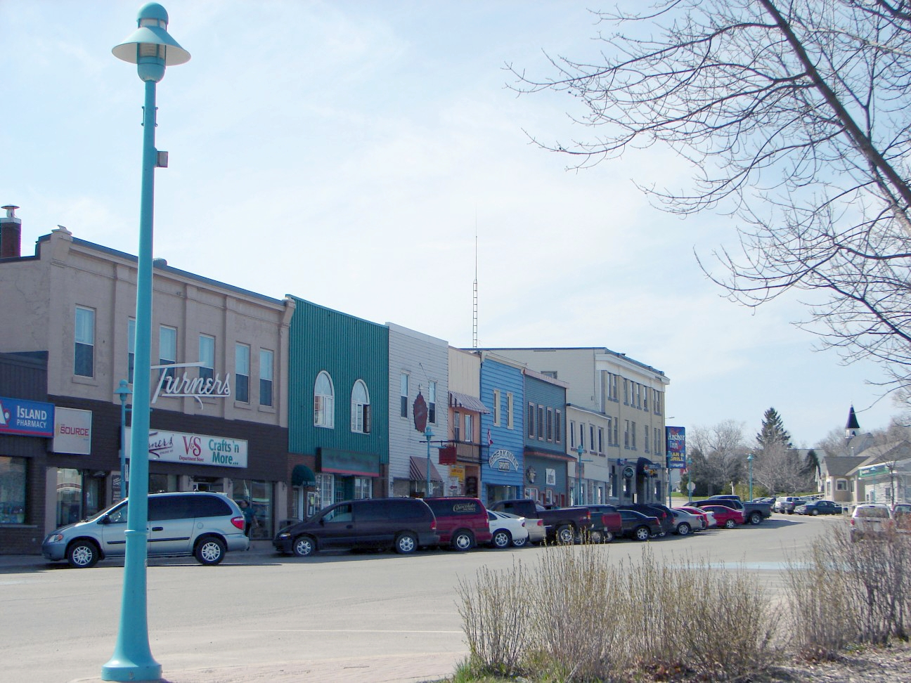 Little Current, Manitoulin Island, Ontario, Canada